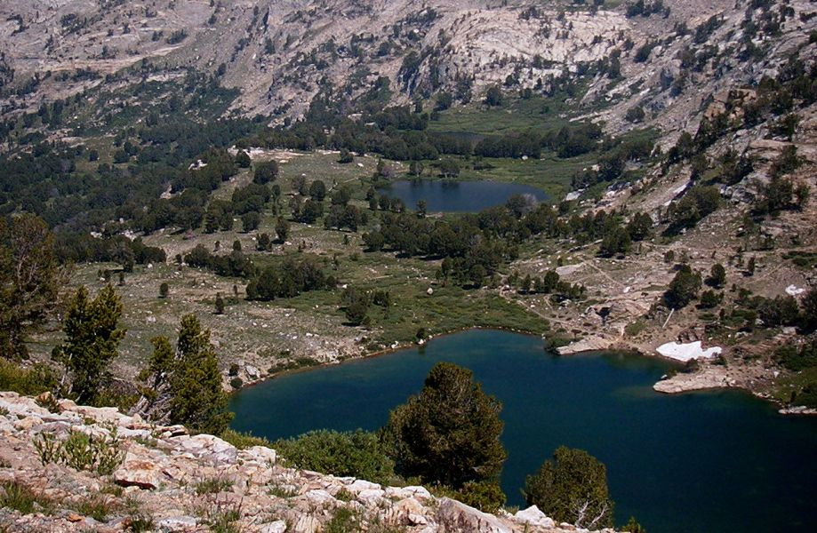 Lamoille Lake, Nevada (foreground). In the distance are the Dollar Lakes group. Also visible is the Ruby Crest Trail.